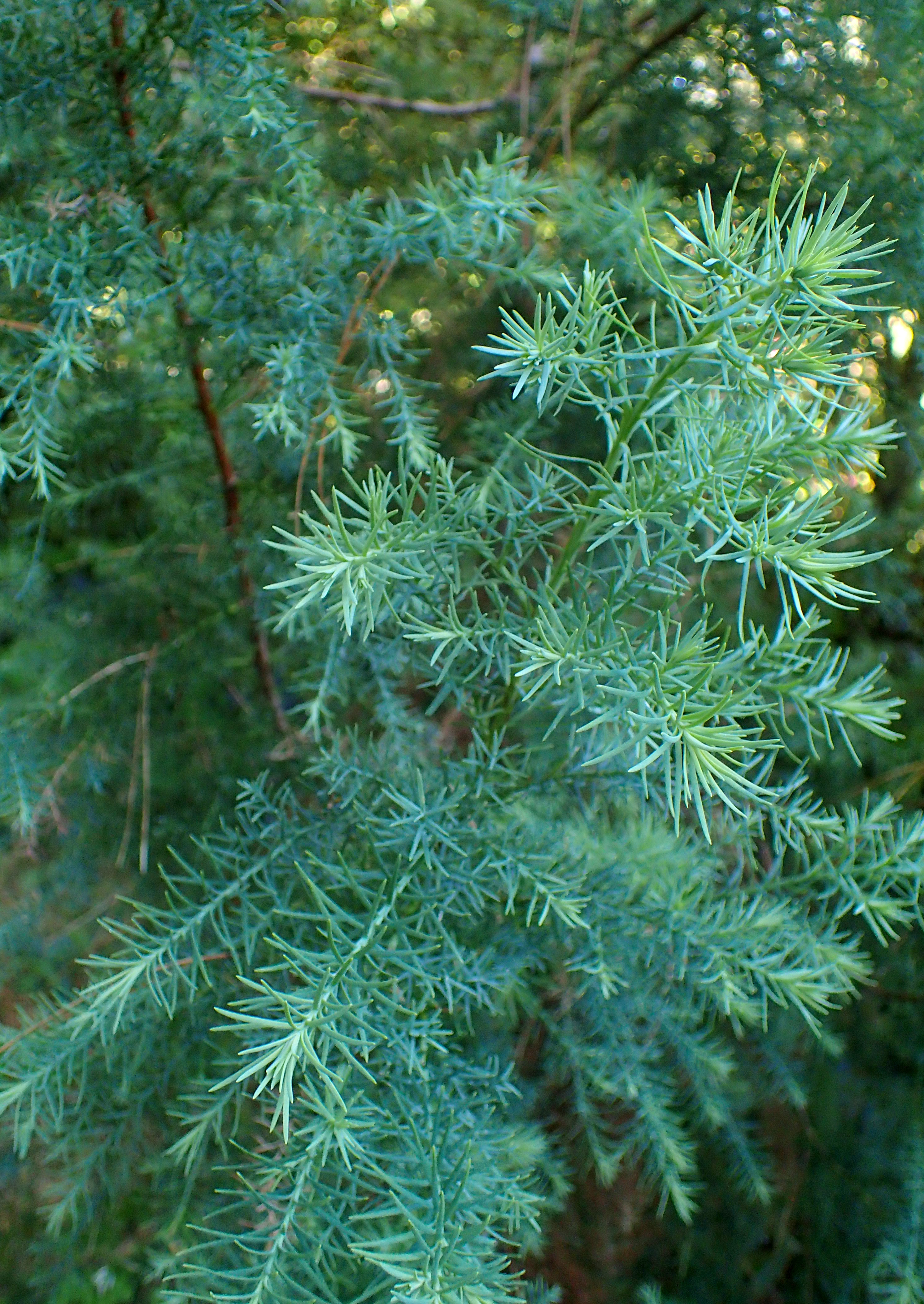 Widdringtonia schwarzii in the San Francisco Botanical Garden